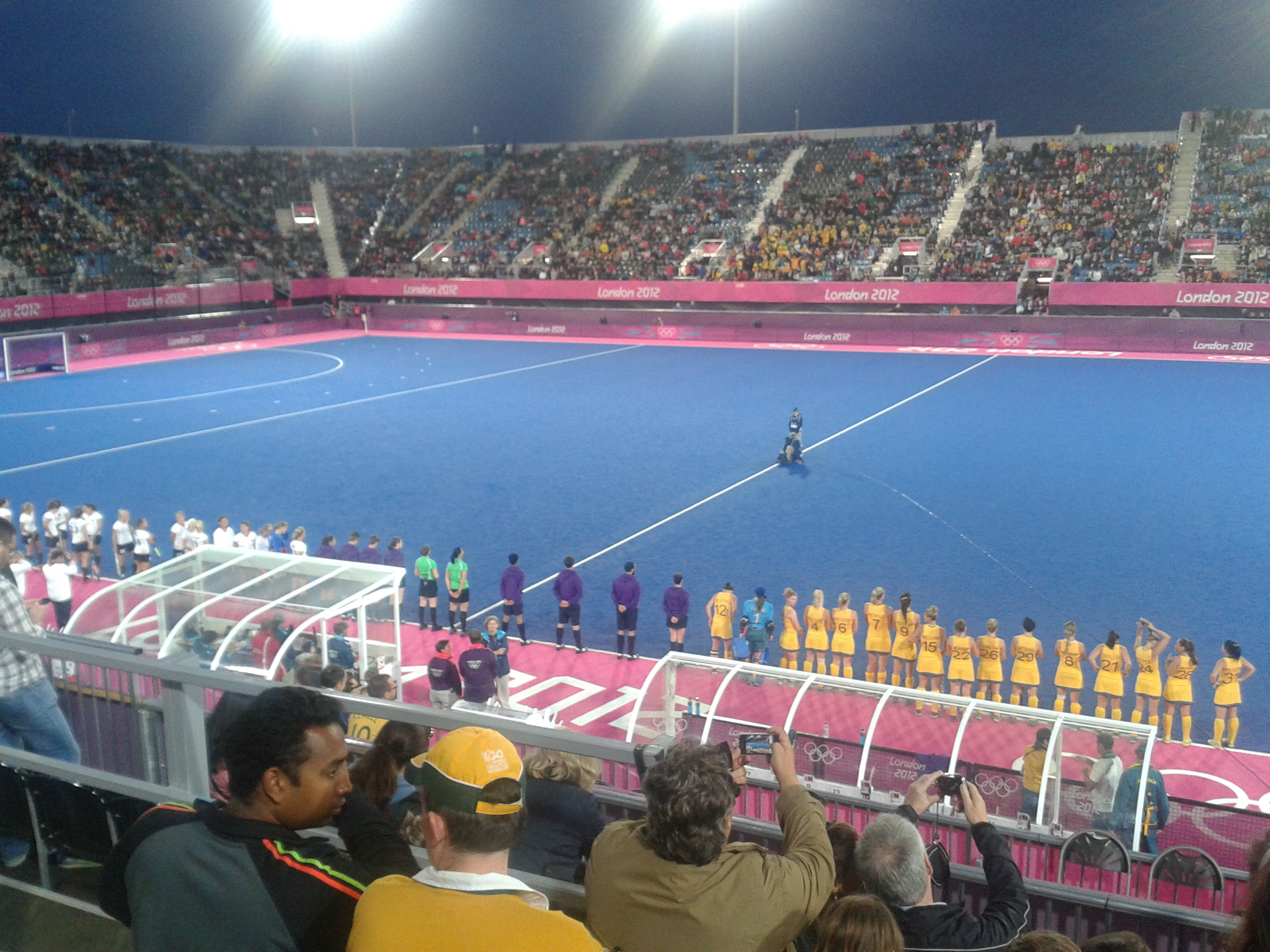 Field hockey at the 2012 summer olympics, womens ger vs aus 31 july, london.